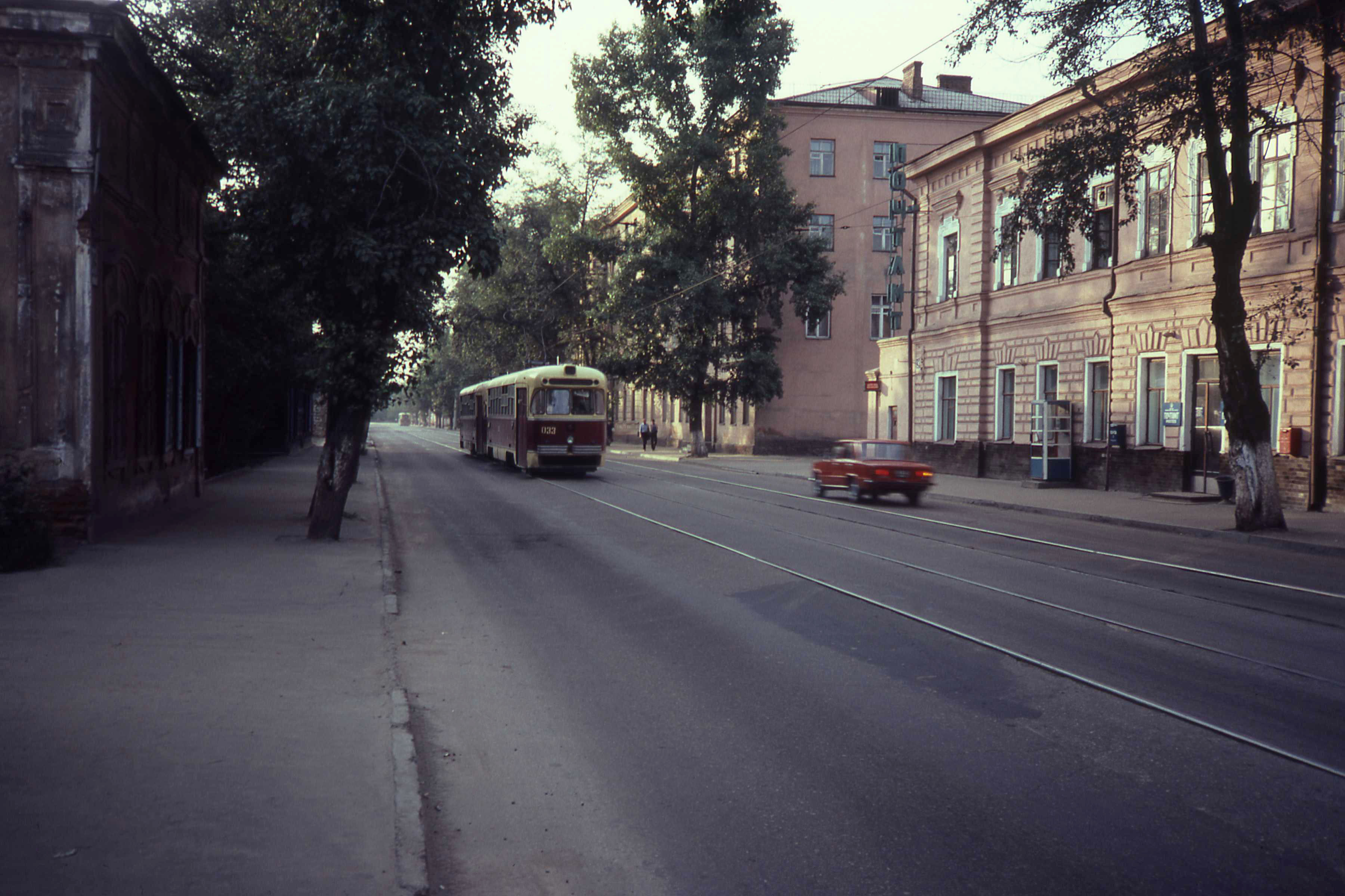 Trams in Irkutsk in 1982